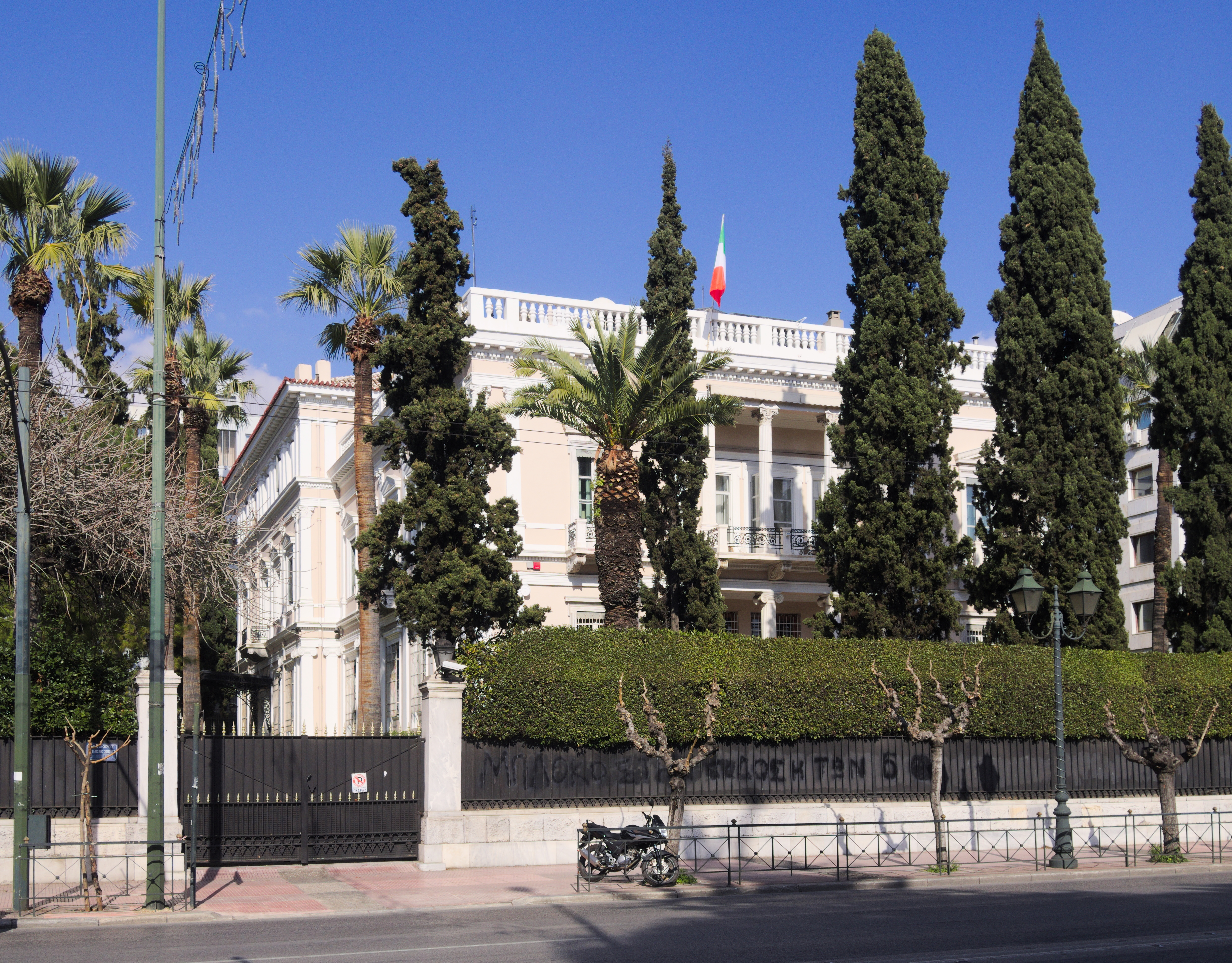 The italian embassy in Greece is housed in Psychas mansion, also known as Petit Palais. The mansion was designed by Ernst Ziller and was built in 1885-1904.